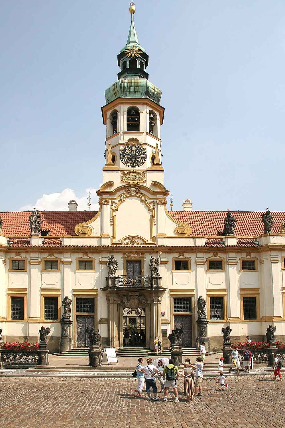 The Loreta in Hradčany; a district of Prague, Czech Republic